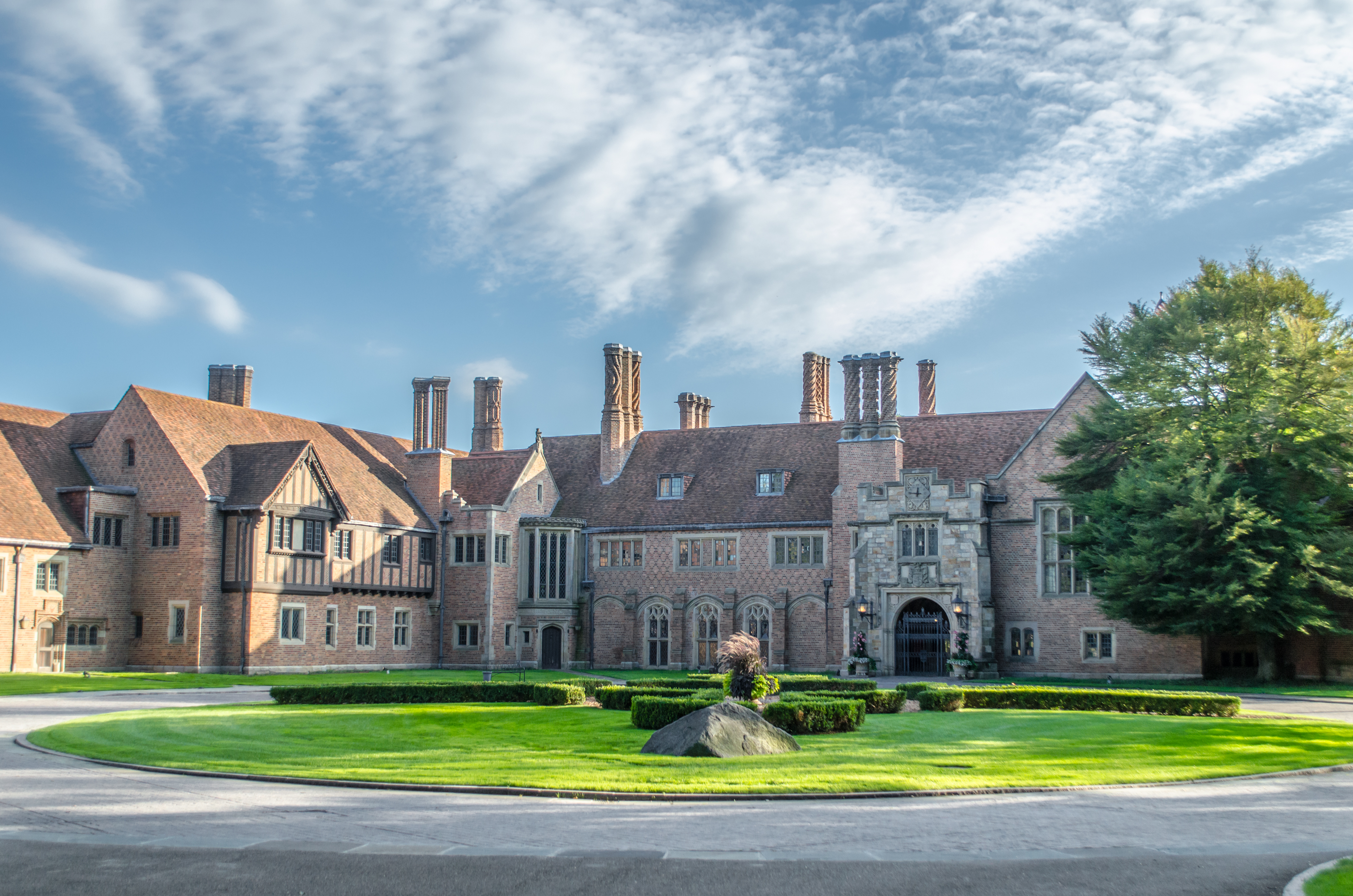 Photograph of Meadowbrook in 2015 in late summer, late in the day.